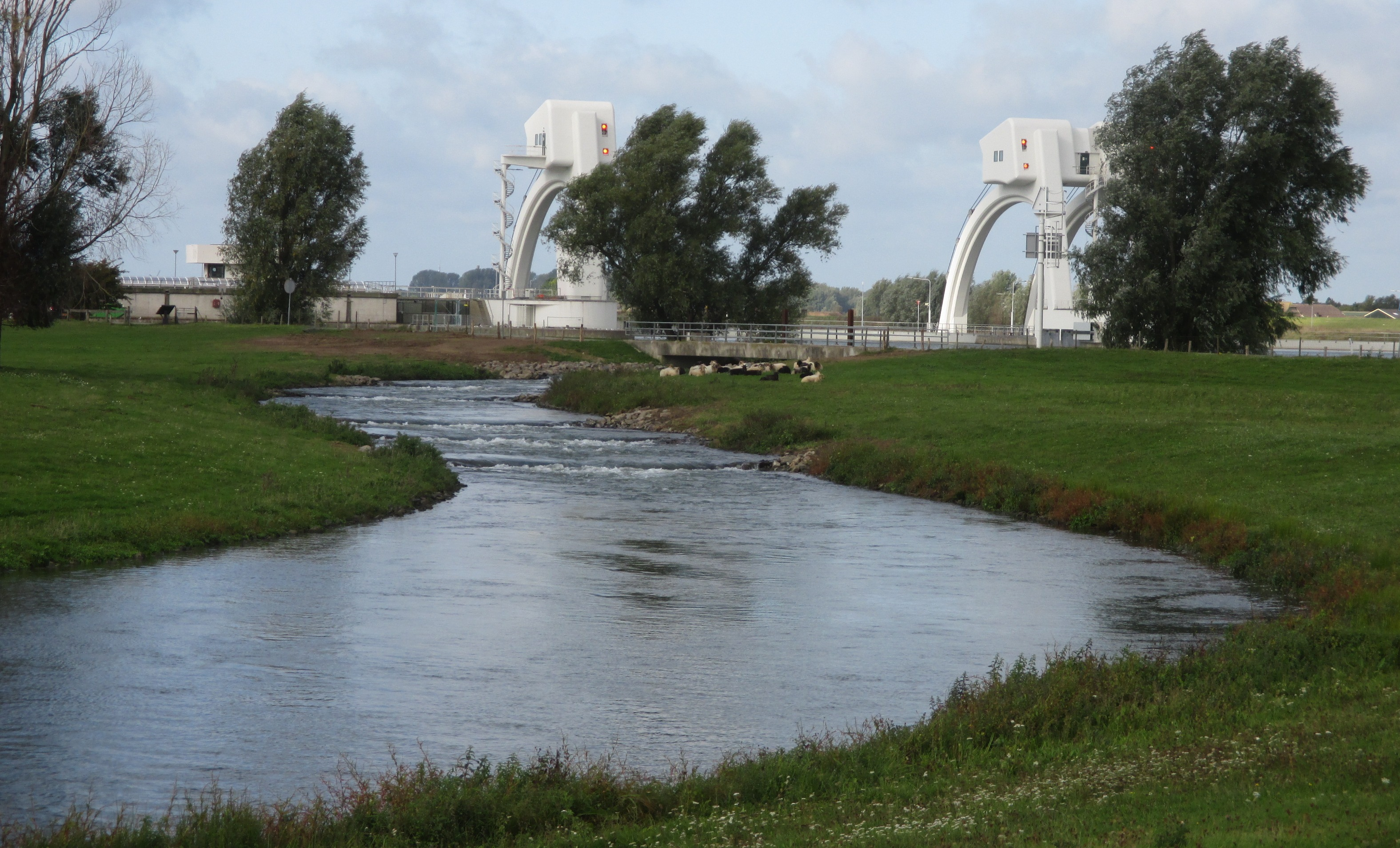 Fishing Passage Maurik (NL)